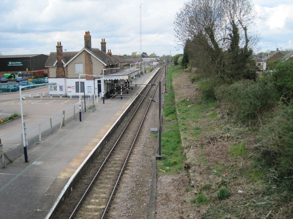 Opened in 1889 by the Great Eastern Railway on its line from Wickford to Southminster. View west towards Althorne and Wickford. The remains of the second platform can be seen on the right. The building was renovated a few years later.